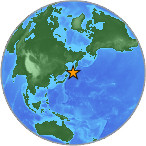 Magnitude7.8 - KURIL ISLANDS 2006 November 15 11:14:16 UTC